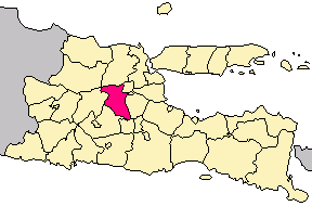 Jombang county, East Java province, Indonesia